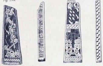 image